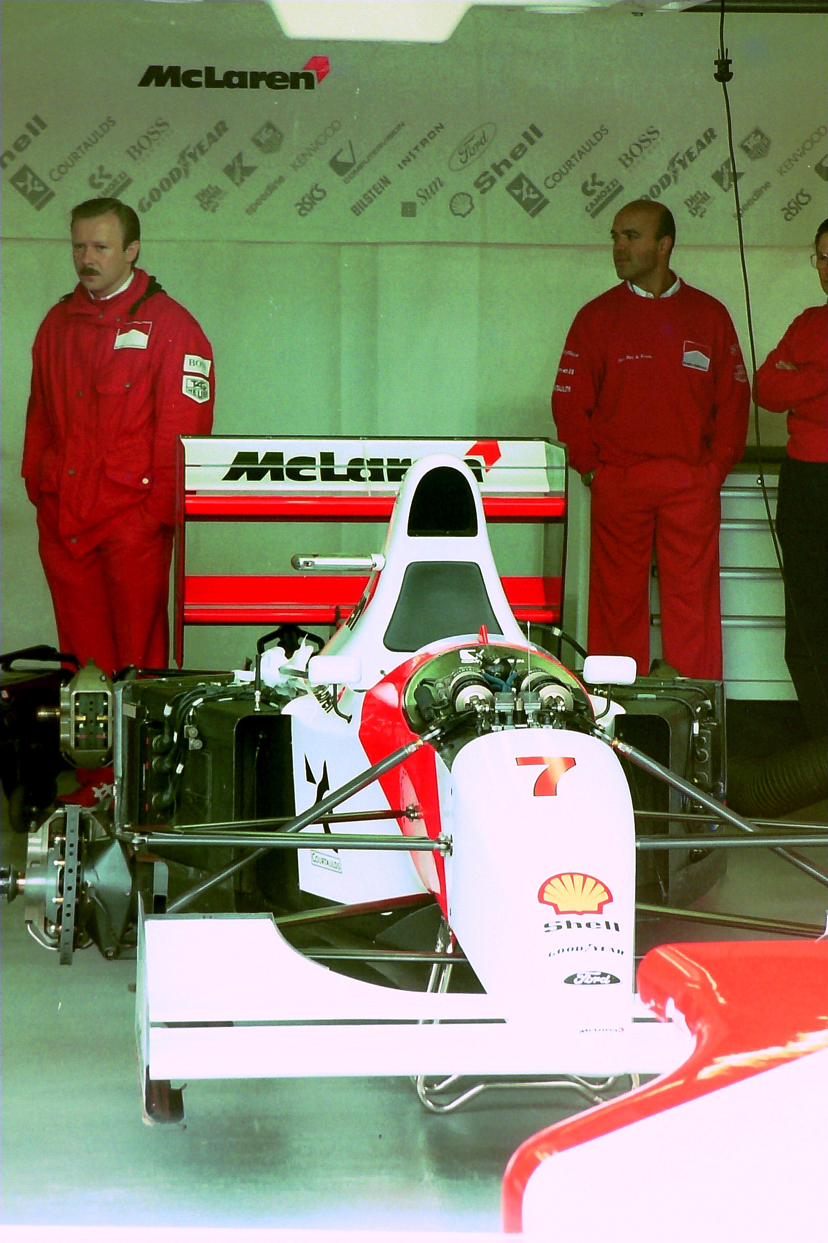 Michael Andretti`s Mclaren MP4-8 in the pit garage at the 1993 British Grand Prix